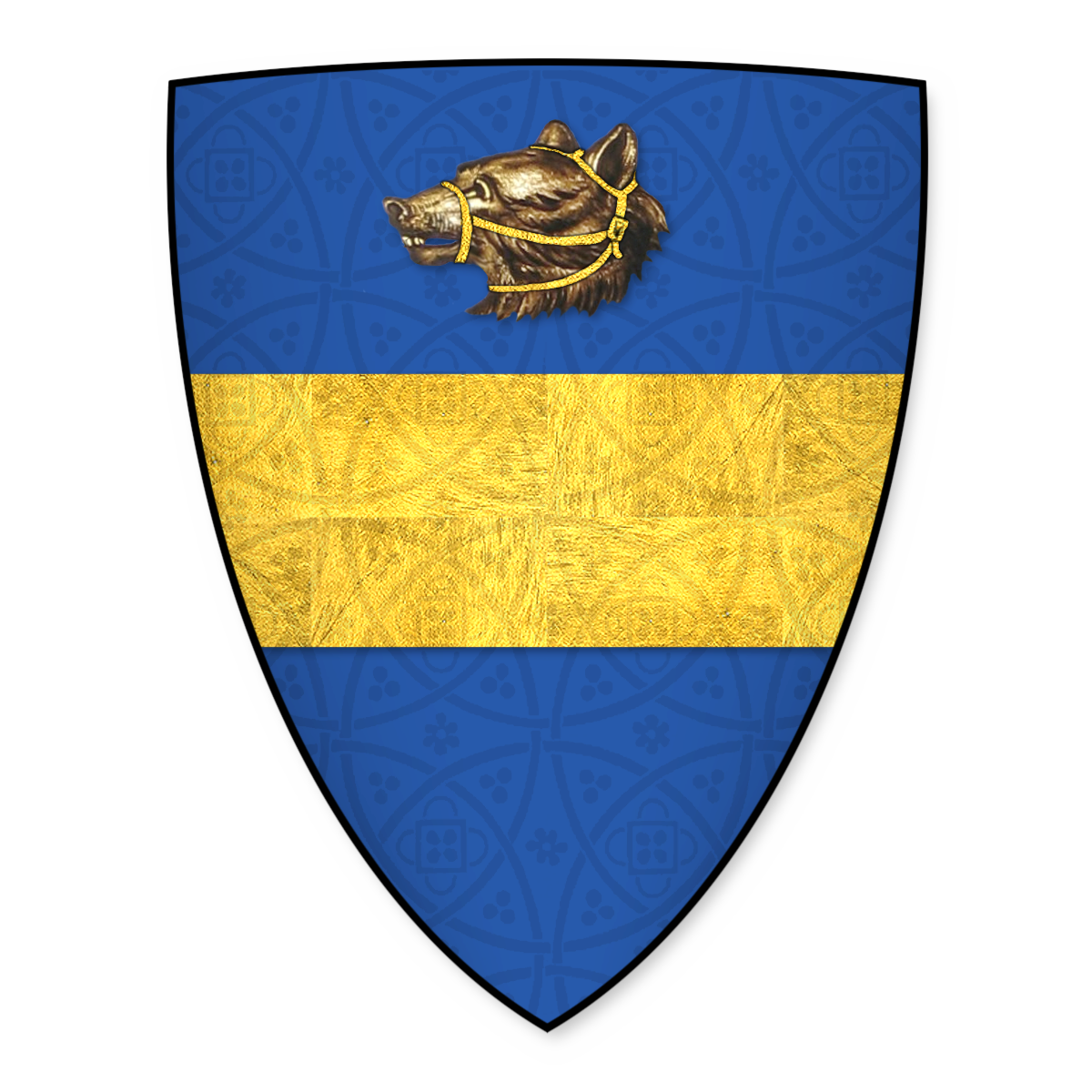 Armorial Bearings of the BARING family (Barons Ashburton), of Rudhall, Brampton Abbotts, Herefordshire Arms: Az. a fess or, in chief a bear's head ppr. muzzled and ringed or. Crest: A mullet erminois between two wings argent. Strong, George (1848) The Heraldry of Herefordshire: Being a Collection of the Armorial Bearings of Families Which Have Been Seated in the County at Various Periods Down to the Present Time., London: Churton Press